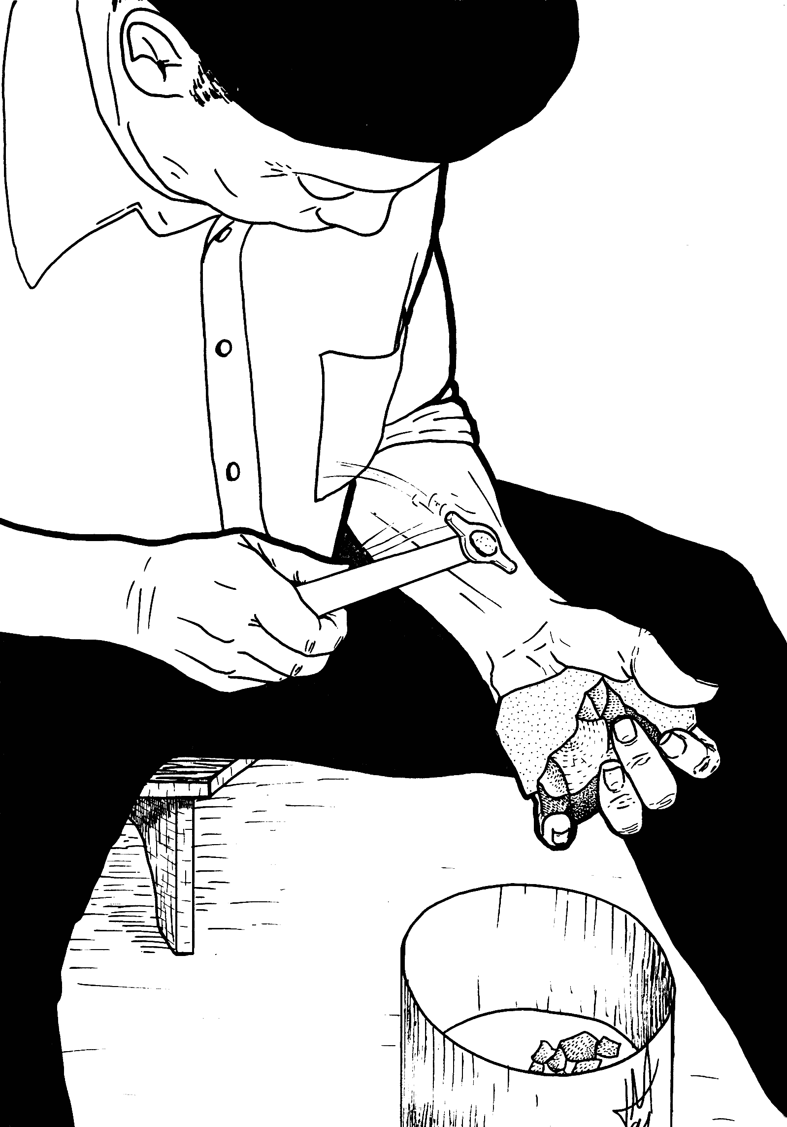 Briquero: kraftsman from Cantalejo (Segovia, Spain), knapping the flint for the threshing-boards